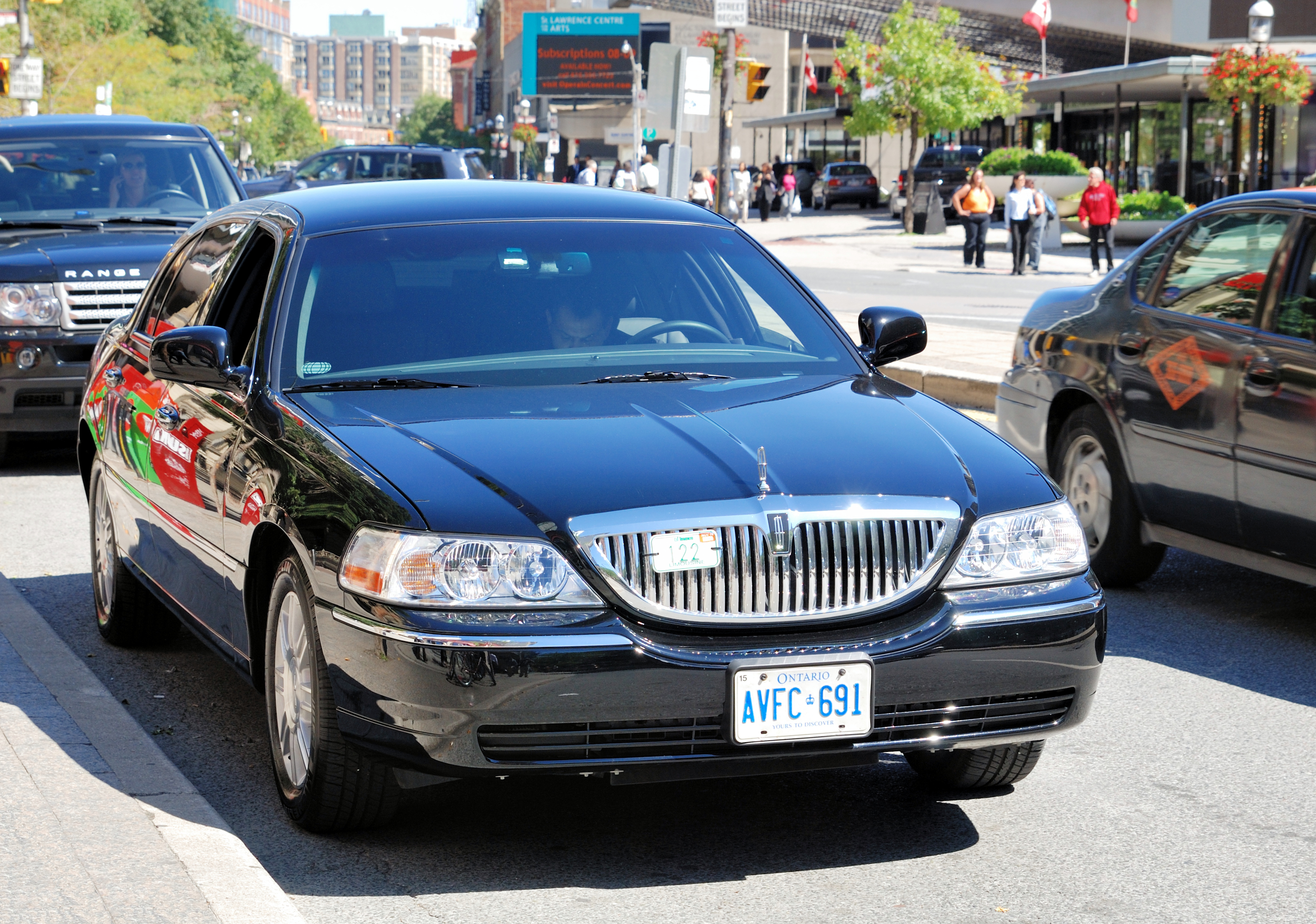 Toronto: Lincoln Town Car